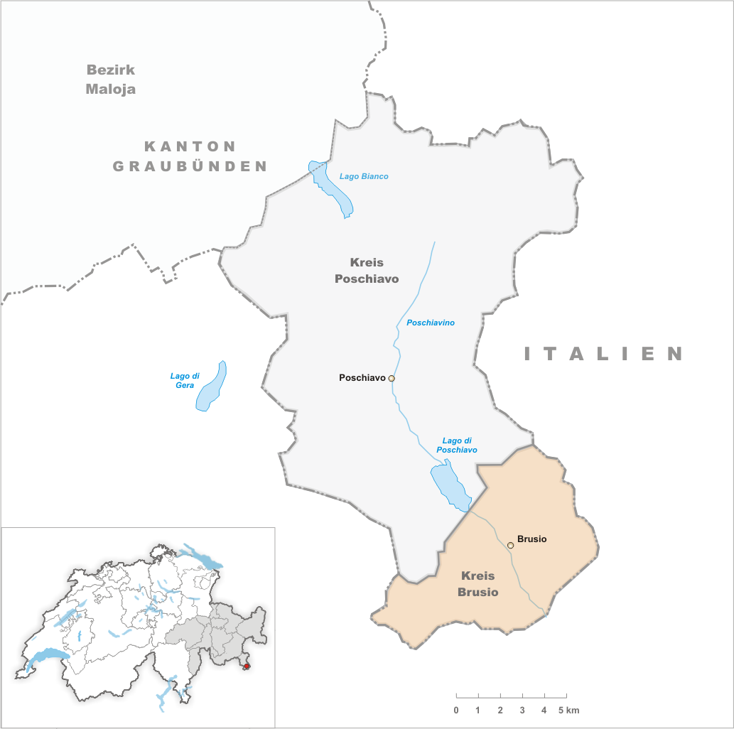 Municipality Brusio